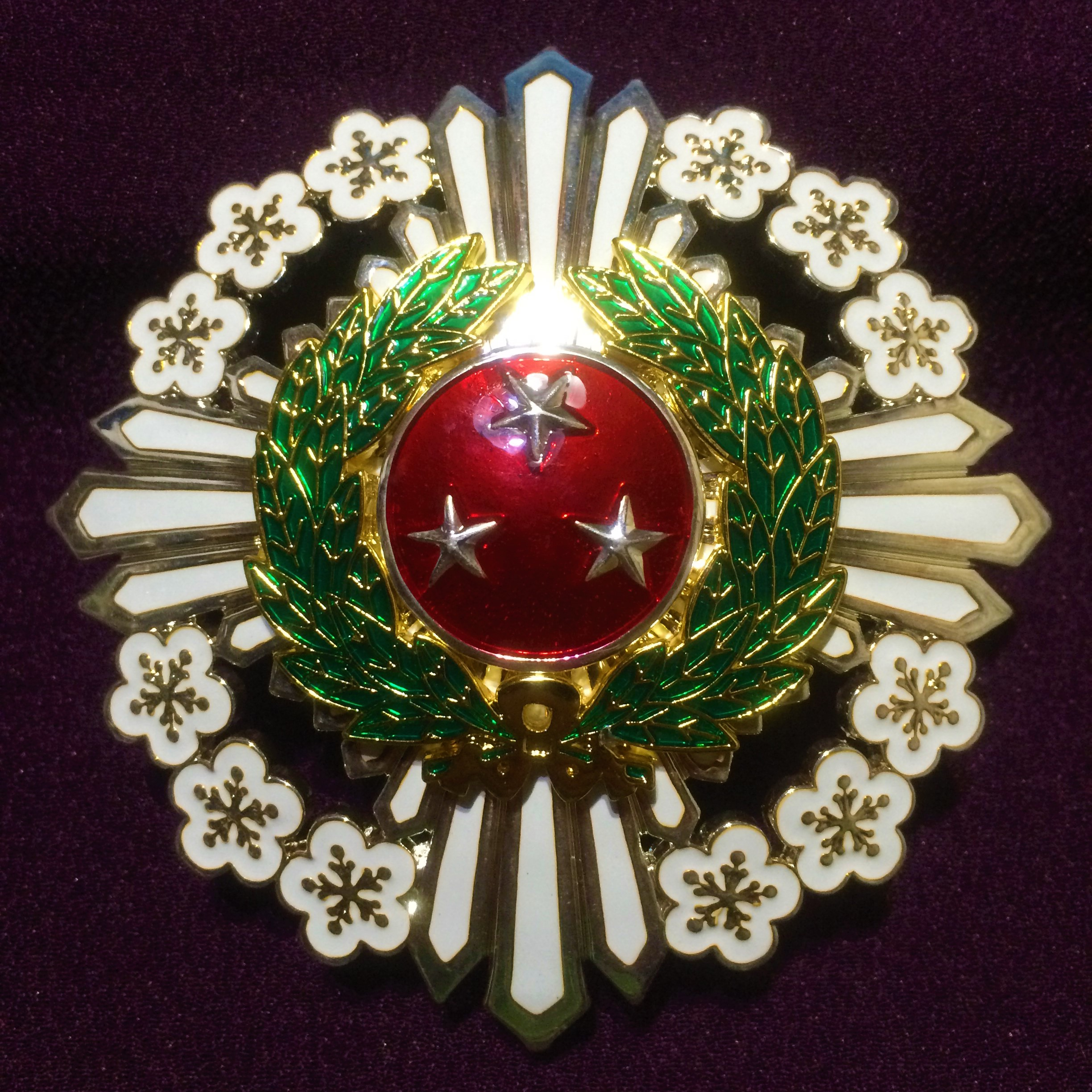 Star of the Order of the Auspicious Stars (Korean Empire)